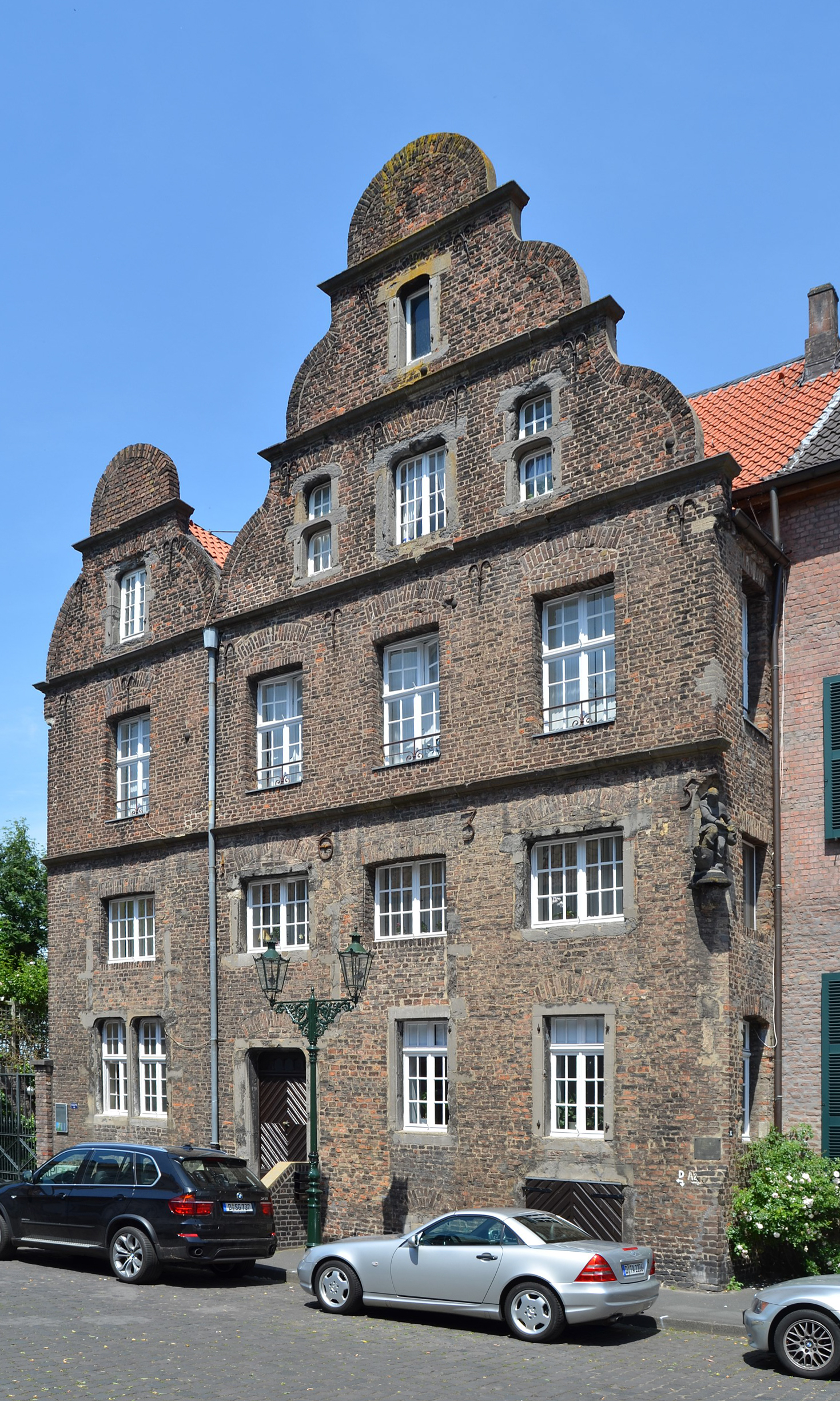 Düsseldorf (North Rhine-Westphalia, Germany) – Kaiserswerth – old customs house This image shows a heritage building in Germany, located in the North Rhine-Westphalian city Düsseldorf (no. 645). This photograph was taken with a Nikon D7000